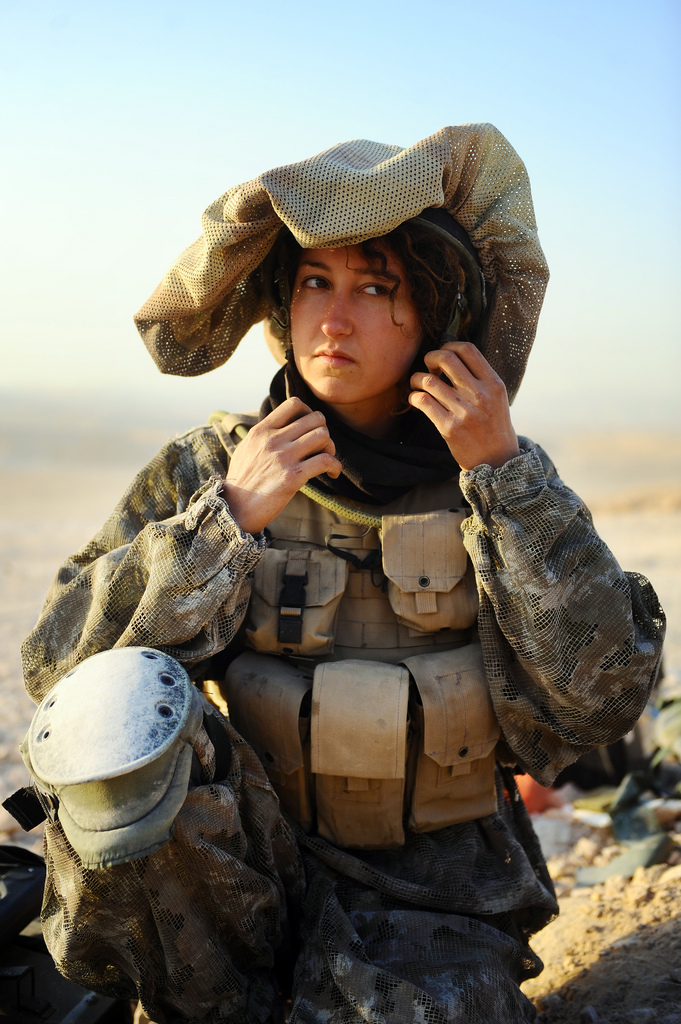 December 15, 2011 For the first time, female and male infantry soldiers from the Caracal Battalion participated in a joint drill. Read more about the first drill of the first coed combat Battalion. Photo by Sgt. Ori Shifrin, IDF Spokesperson's Unit The Israel Defense Forces Facebook page The Israel Defense Forces blog Follow us on Twitter